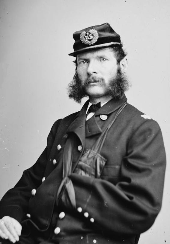 Gen. Samuel S. Carroll, Col of 18th Ohio Inf.